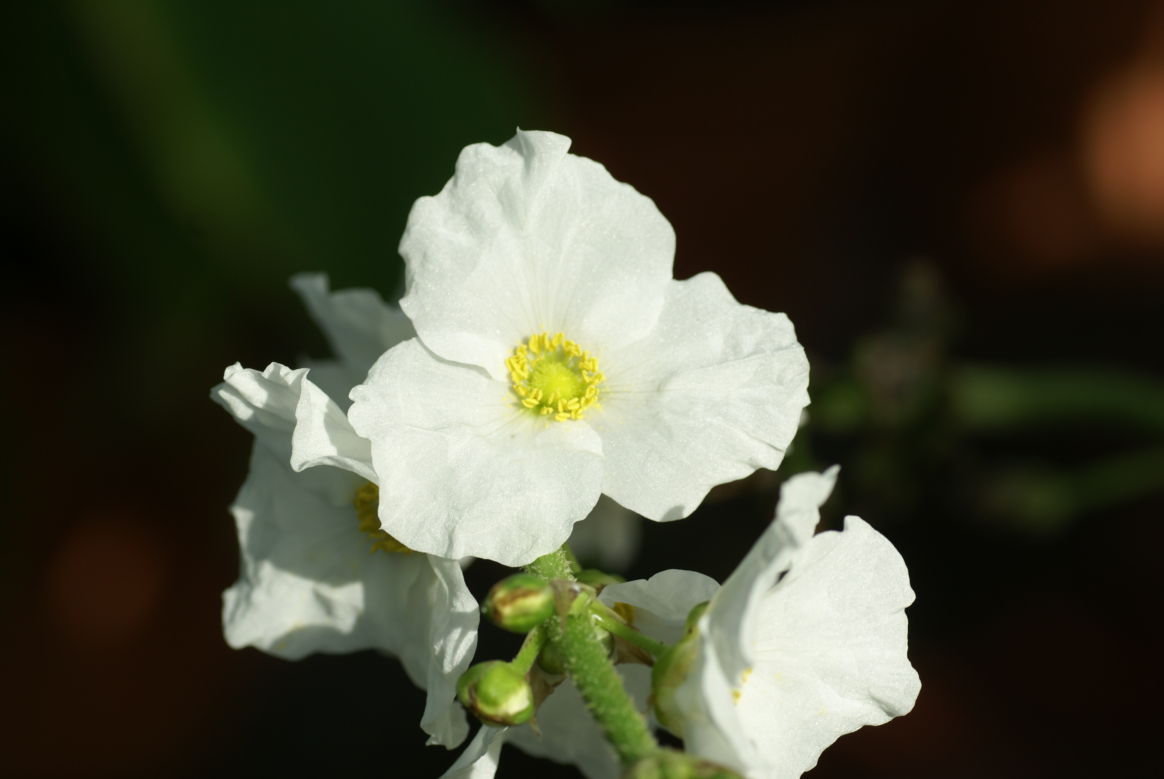 Plant species Echinodorus floribundus in botanical garden in Helsinki city